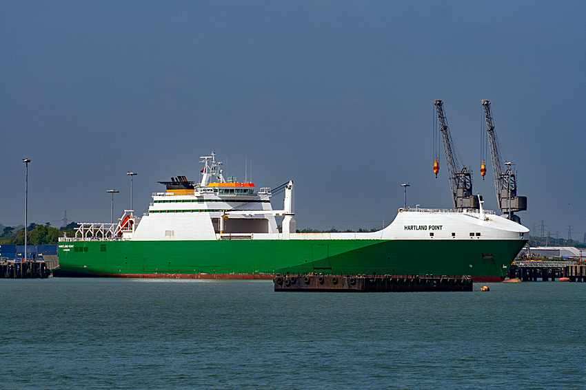 MV Hartland Point at Marchwood Miltary Port Information about the vessel may be found at IMO 9248538.A ship can change name and flag state through time, but the IMO number remains the same through the hull's entire lifetime. As a result, it can be useful to identify a ship by using the IMO number.